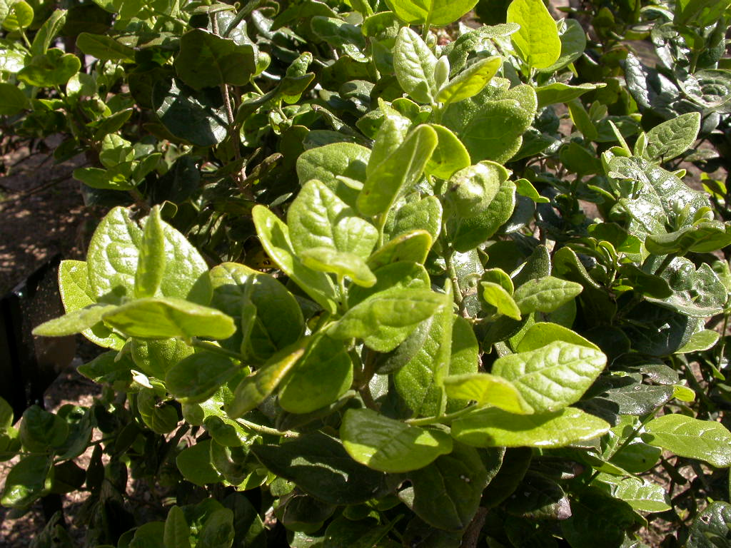 Peumus boldus